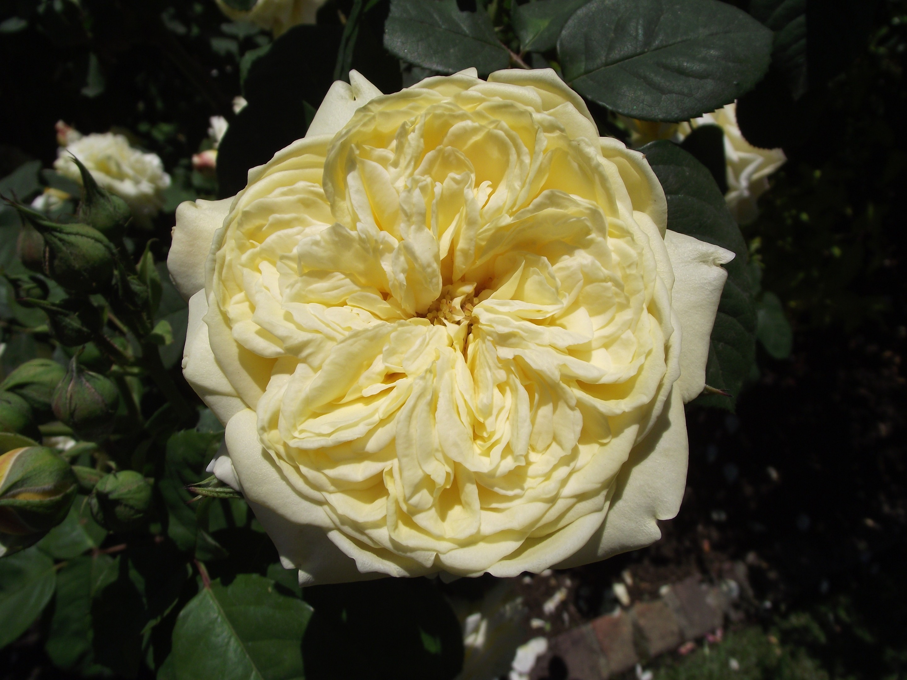 Rosa 'Symphony' at the Los Angeles County Arboretum, Arcadia, California, USA. Identified by sign.